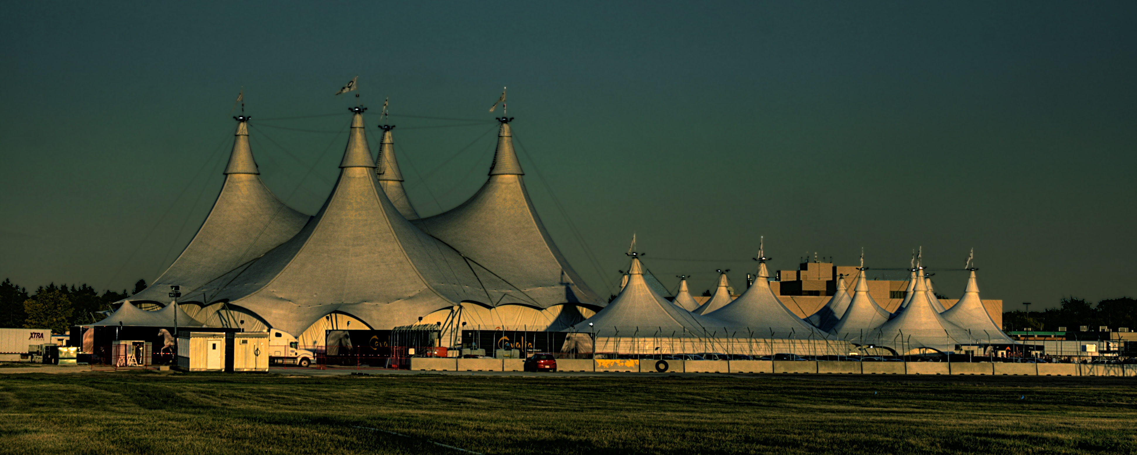 Big top for the Cavalia show in Edmonton, Alberta, Canada